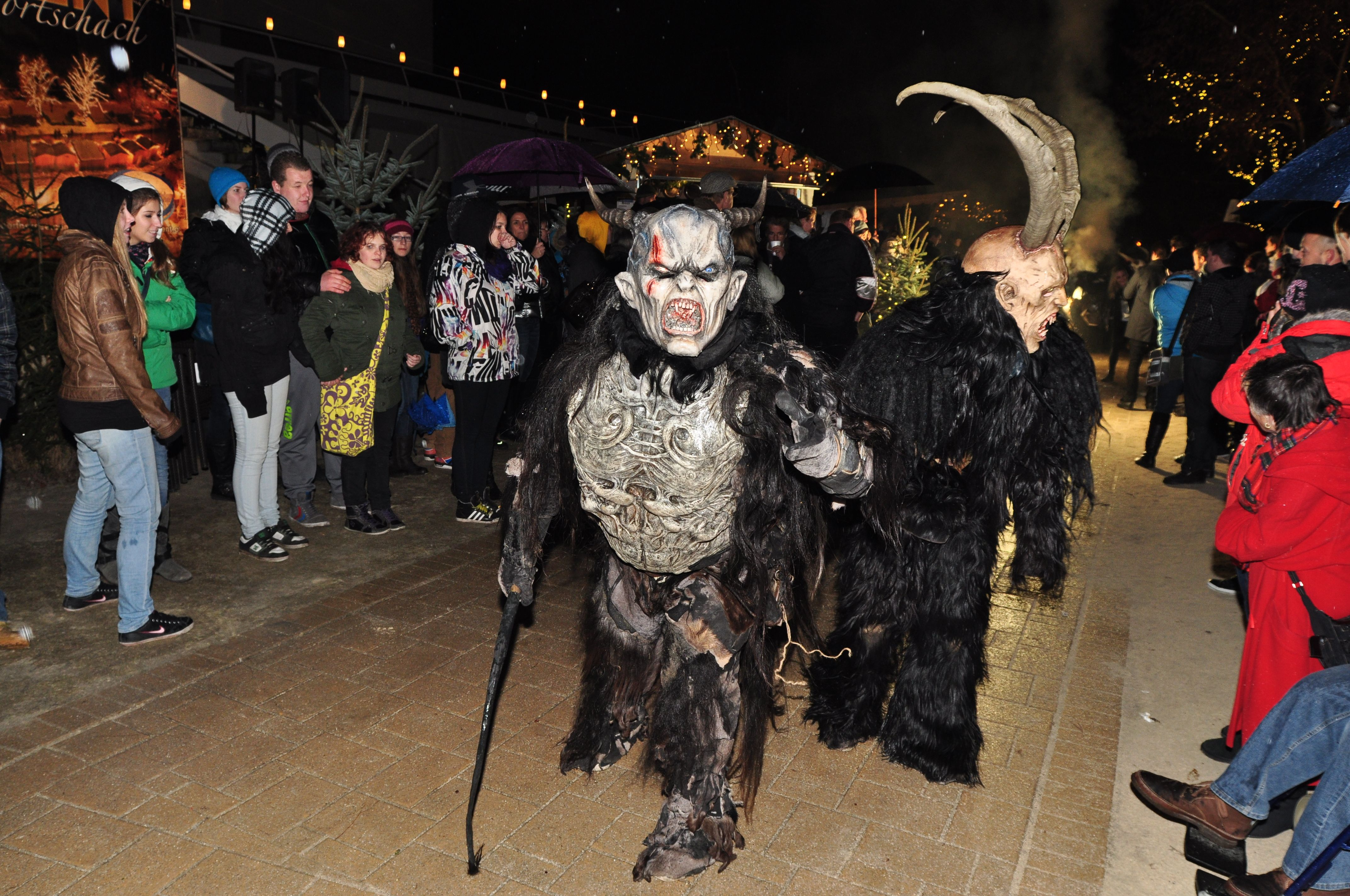 Krampus parade on the Johannes-Brahms-Promenade, municipality Poertschach on the Lake Woerth, district Klagenfurt Land, Carinthia / Austria / EU